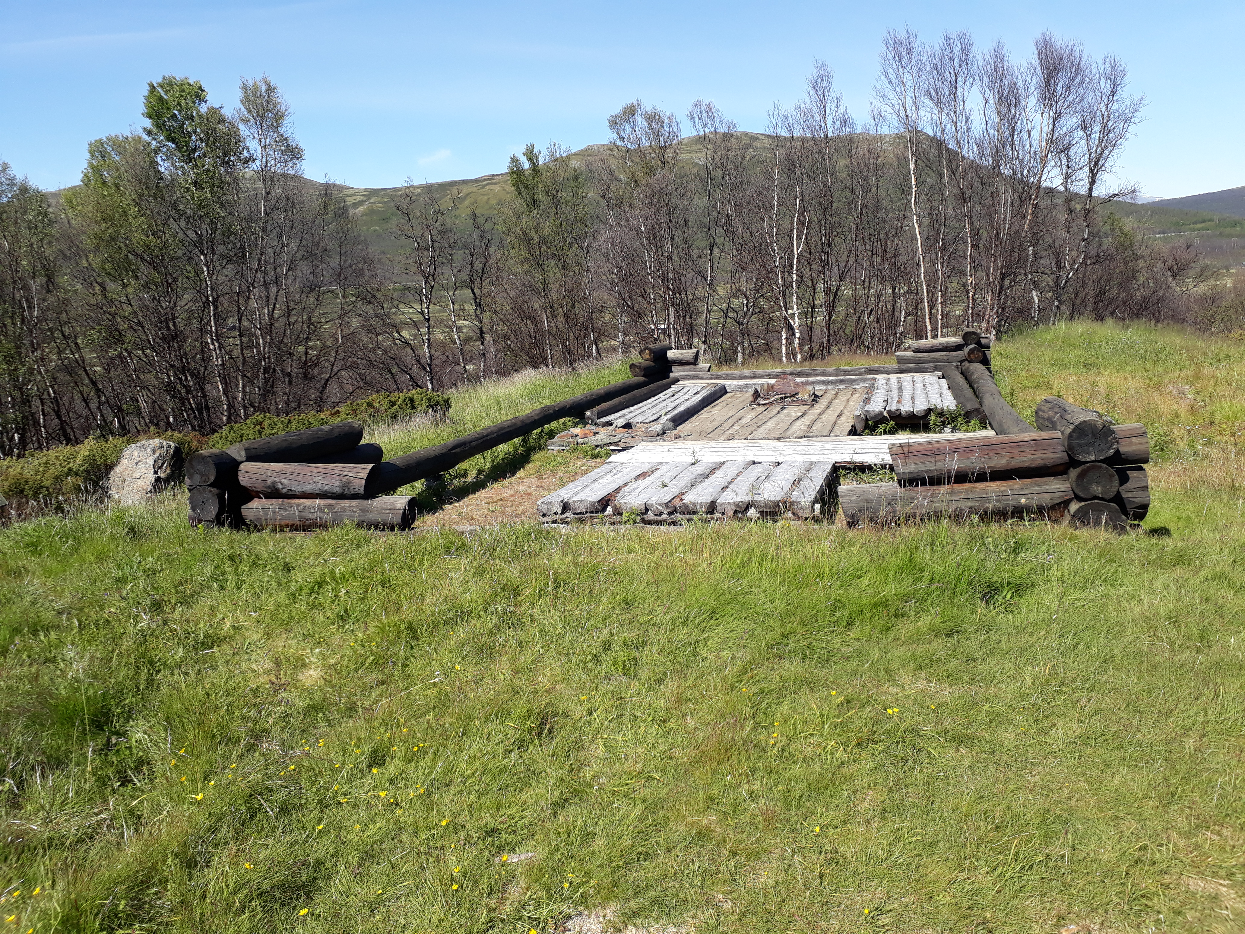 Vesle-Hjerkinn